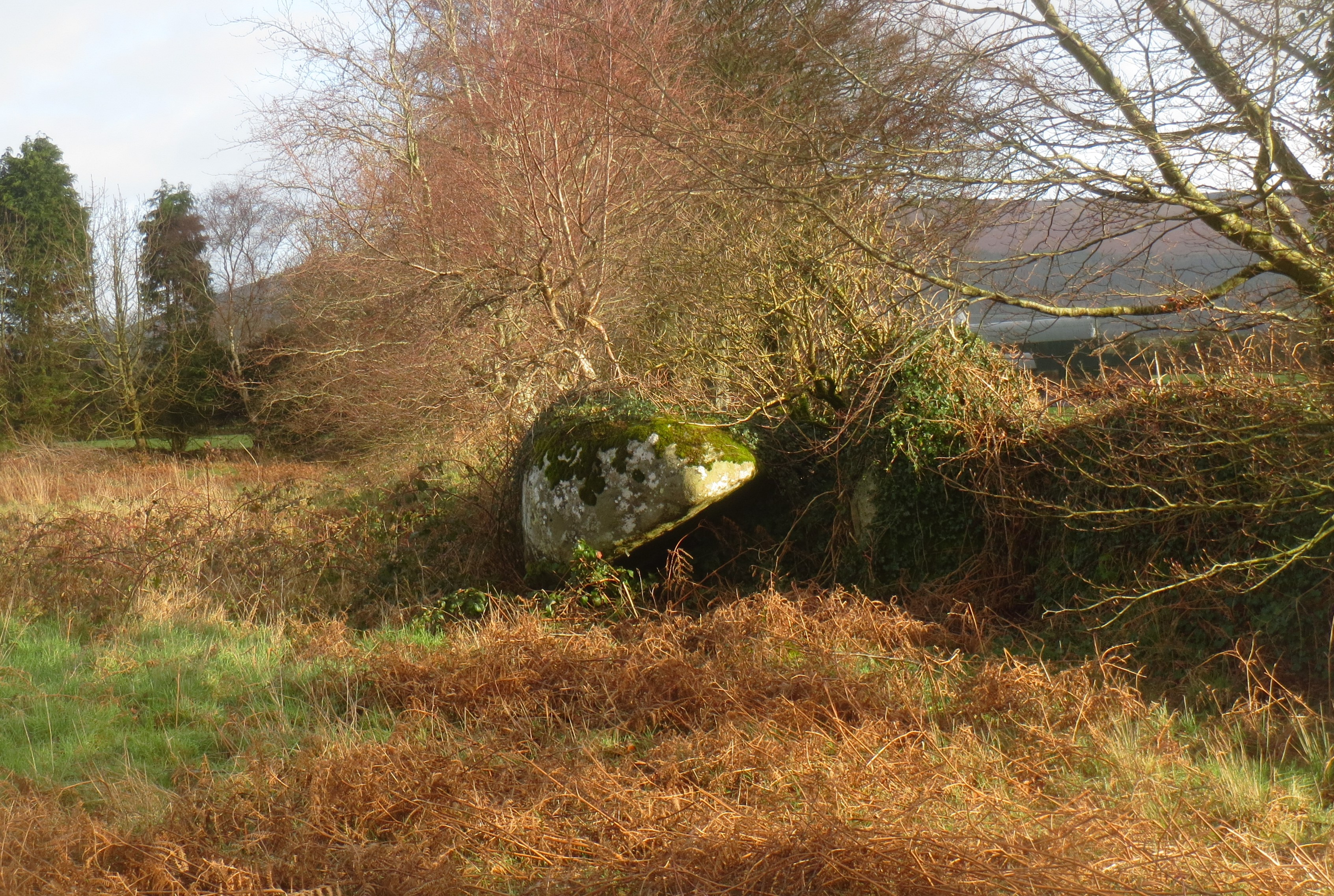 Portal Tomb at Broomfields near Donard Co. Wicklow